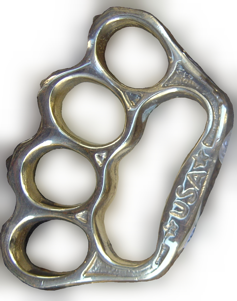 Brass knuckles, from the window display of the Armurerie de la Bourse in Paris Copyright © 2005 David Monniaux